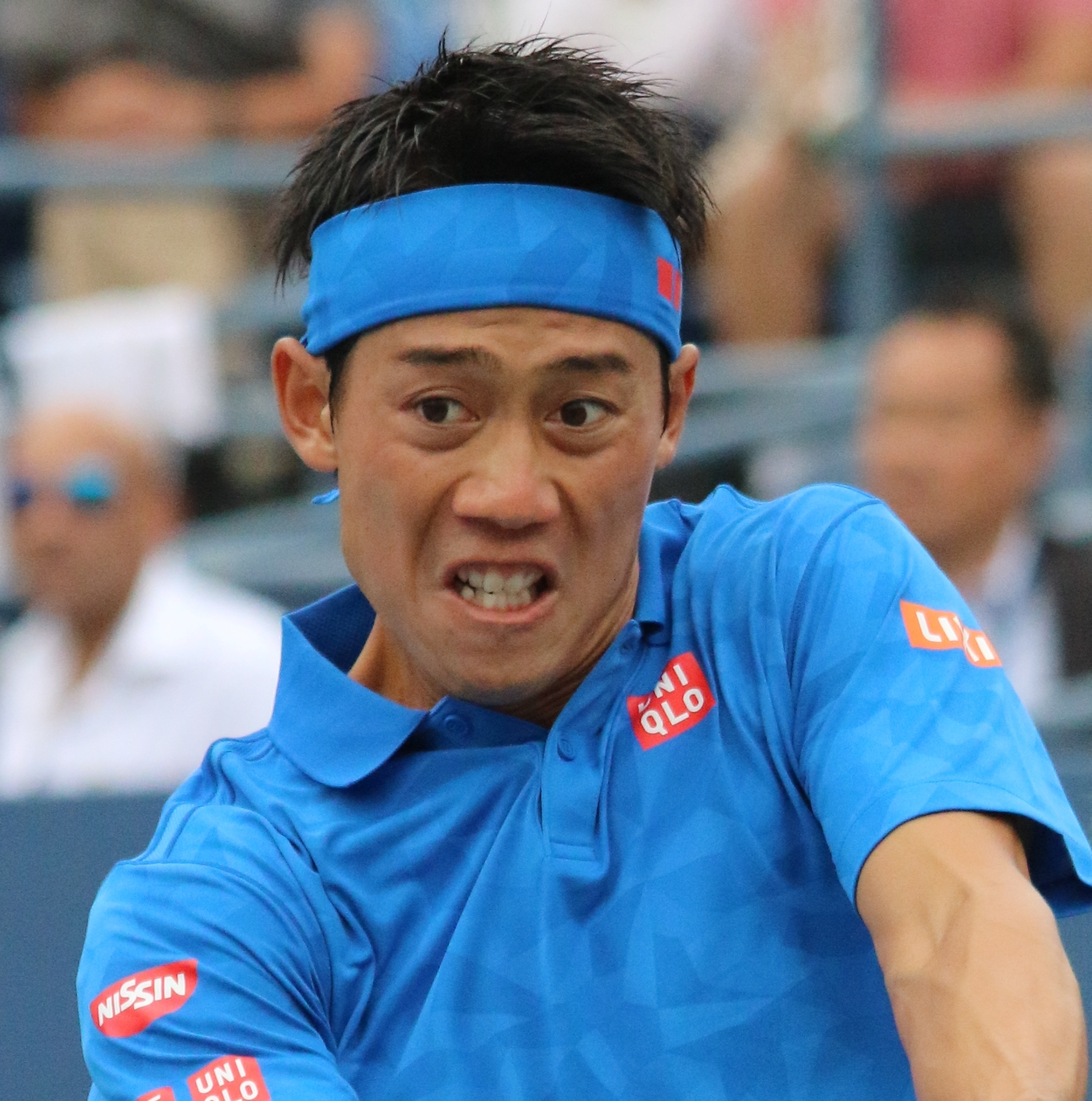 Nishikori at the 2016 US Open